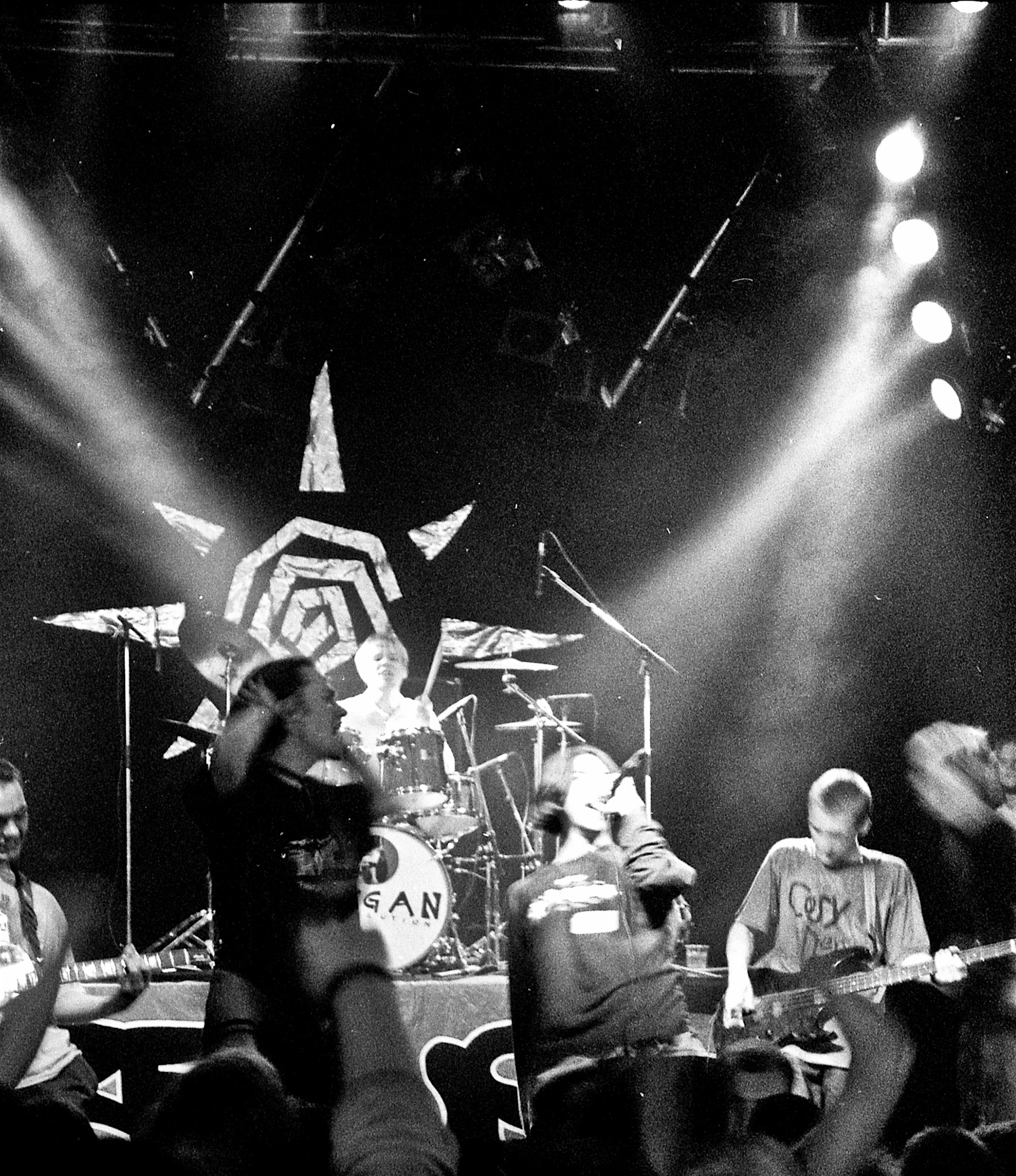 Refused @ Hultsfredsfestivalen 1994